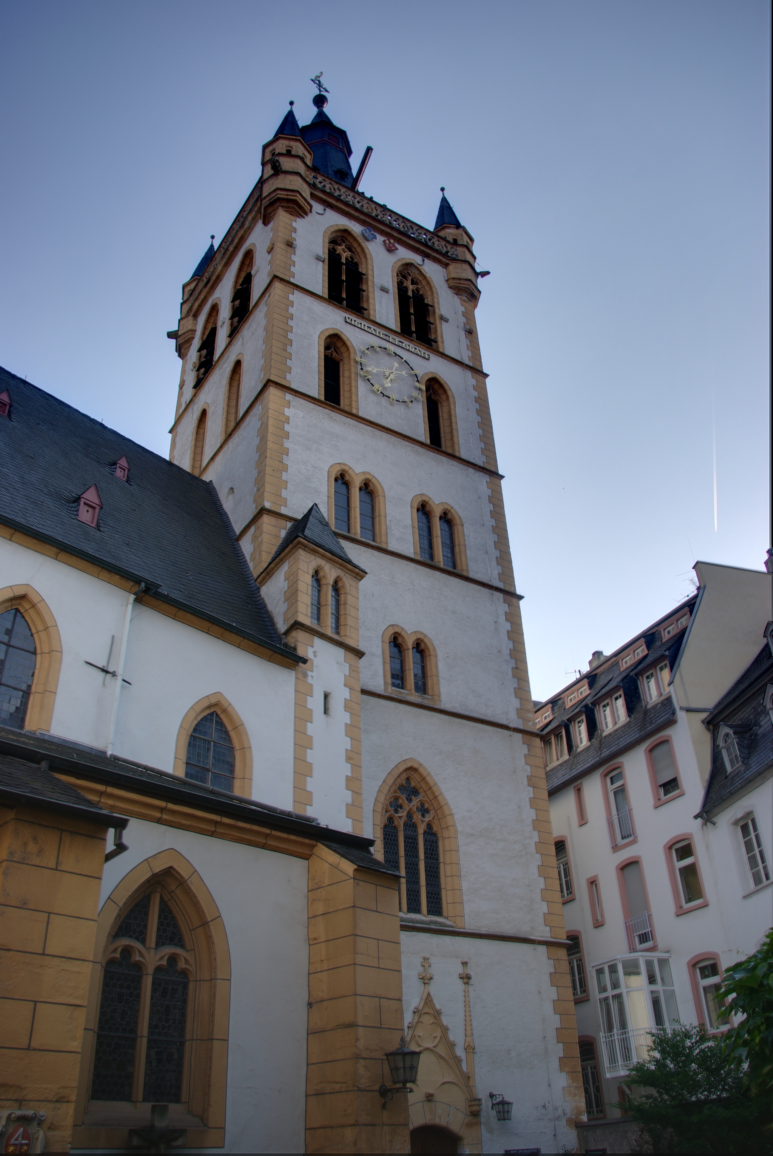 Germany, Trier, Tower of the St. Gangolf church